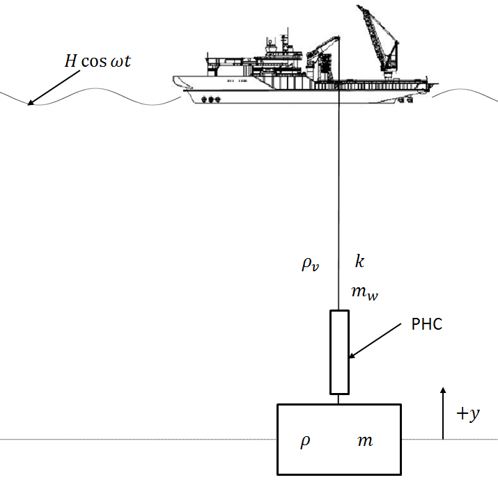 Sketch of a ship and PHC device